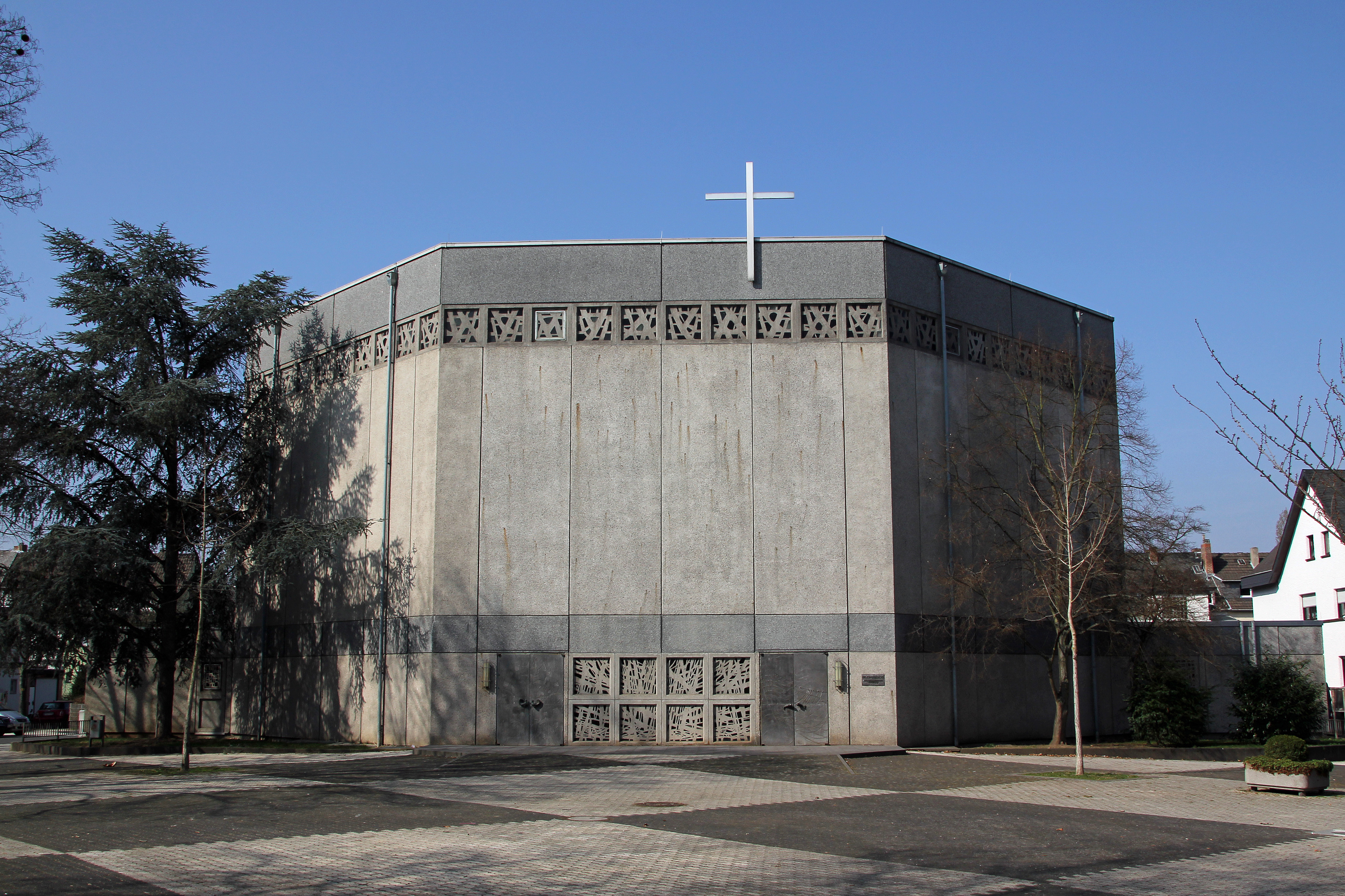 St. Franziskus church in Koblenz